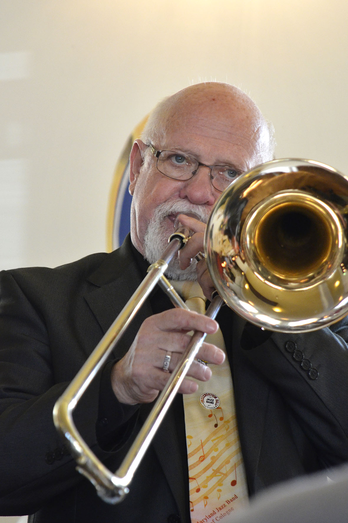 Gerhard "Doggy" Hund founder of the Maryland Jazz Band of Cologne - playing at the Jazz Brunch in Kerpen (NRW), Germany 2011